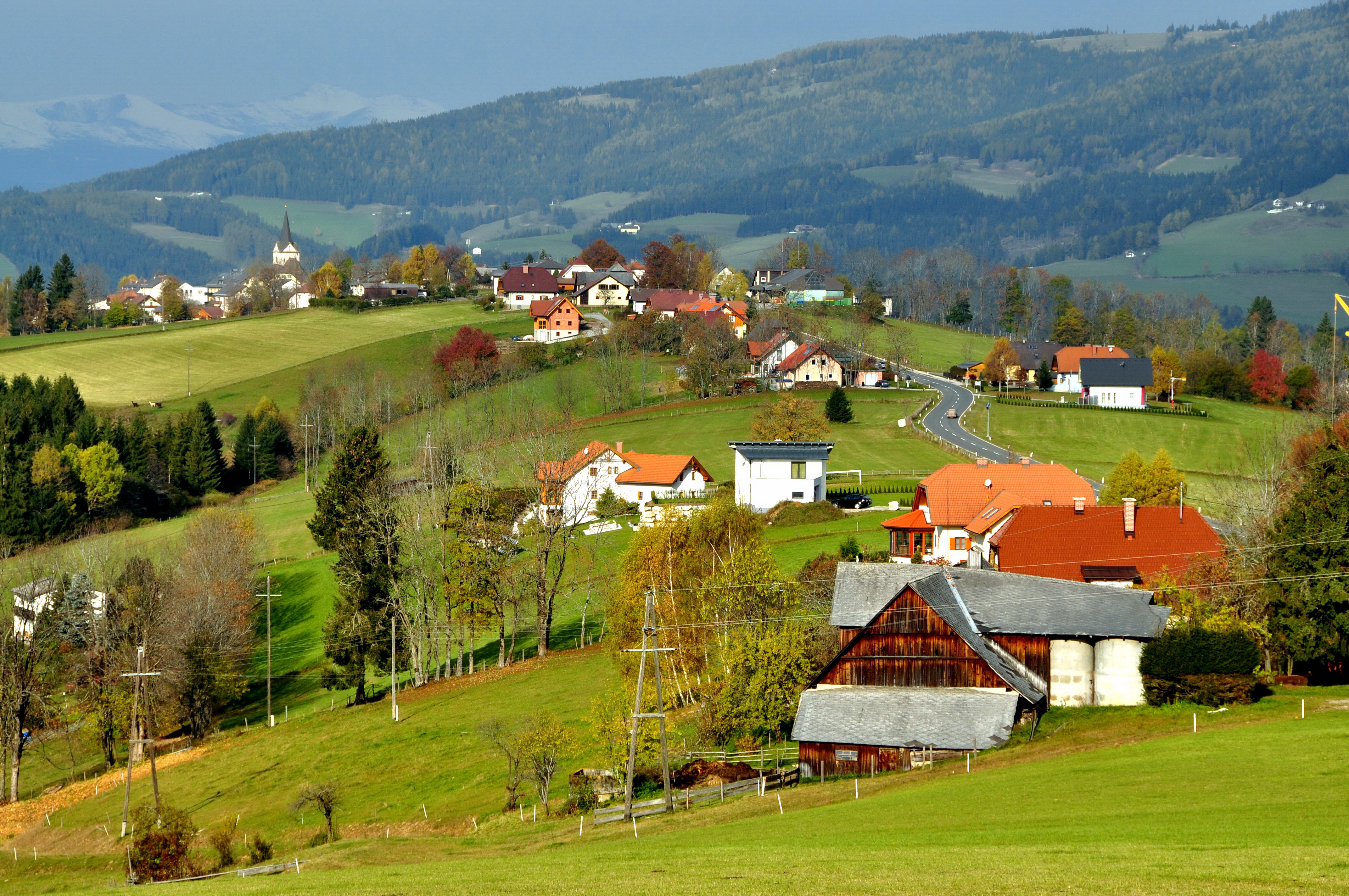 South east view at the village Preitenegg, municipality Preitenegg, district Wolfsberg, Carinthia, Austria